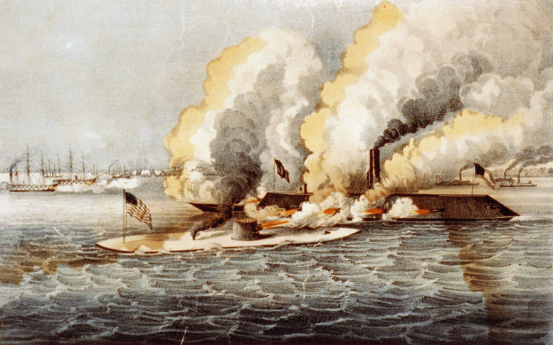 TITLE: Terrific combat between the "Monitor" 2 guns & "Merrimac" 11 guns: in Hampton Roads March 9th., 1862